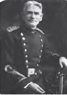 Harry T. Loper. Restauranteur and National Guardsman. c. 1905